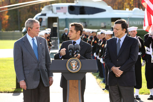 President George W. Bush listens as French President Nicolas Sarkozy, center, adresses the media during a meeting at Camp David to discuss the economic crisis and the need for coordinated global response, Saturday, October 18, 2008. The two presidents are joined by Jose Manuel Barroso, President of the European Commission, at right.